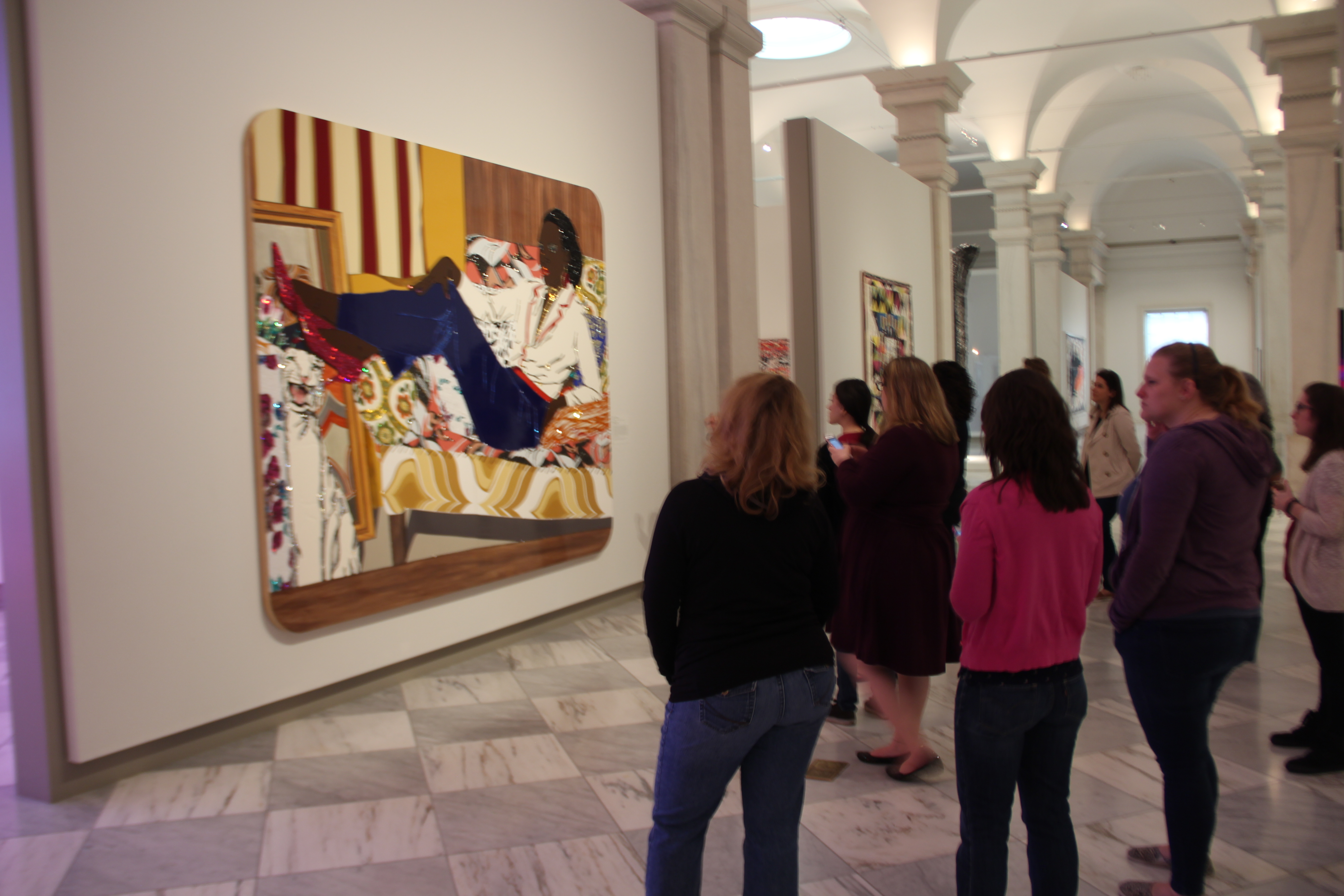 Art+Feminism Edit-a-Thon at the Smithsonian American Art Museum group contemplating "Portrait of Mnonja", 2010, rhinestone acrylic and enamel on wood panel - by Mickalene Thomas, born Camden NJ 1971